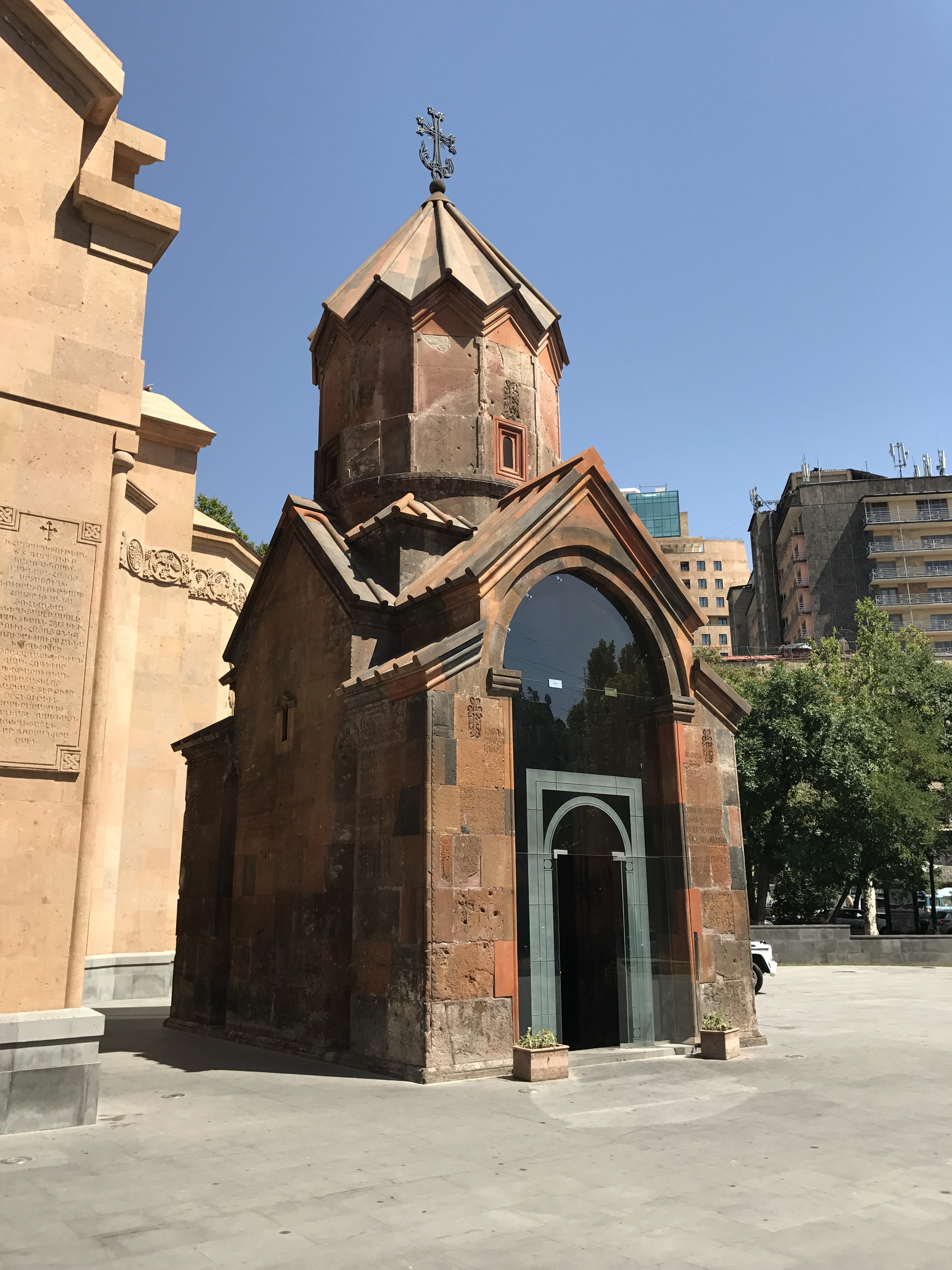 Katoghike Church, Yerevan.